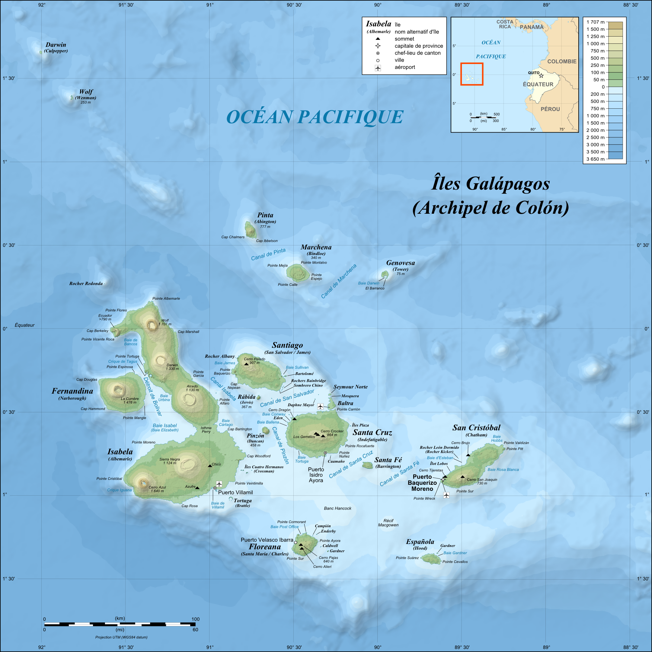 Topographic and bathymetric map of the Galápagos Islands, Ecuador.